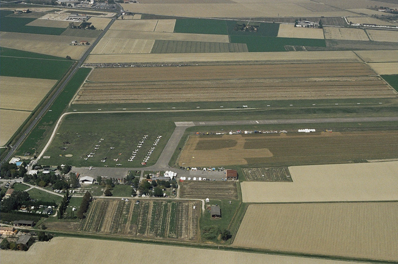 Air view of Ravenna airport